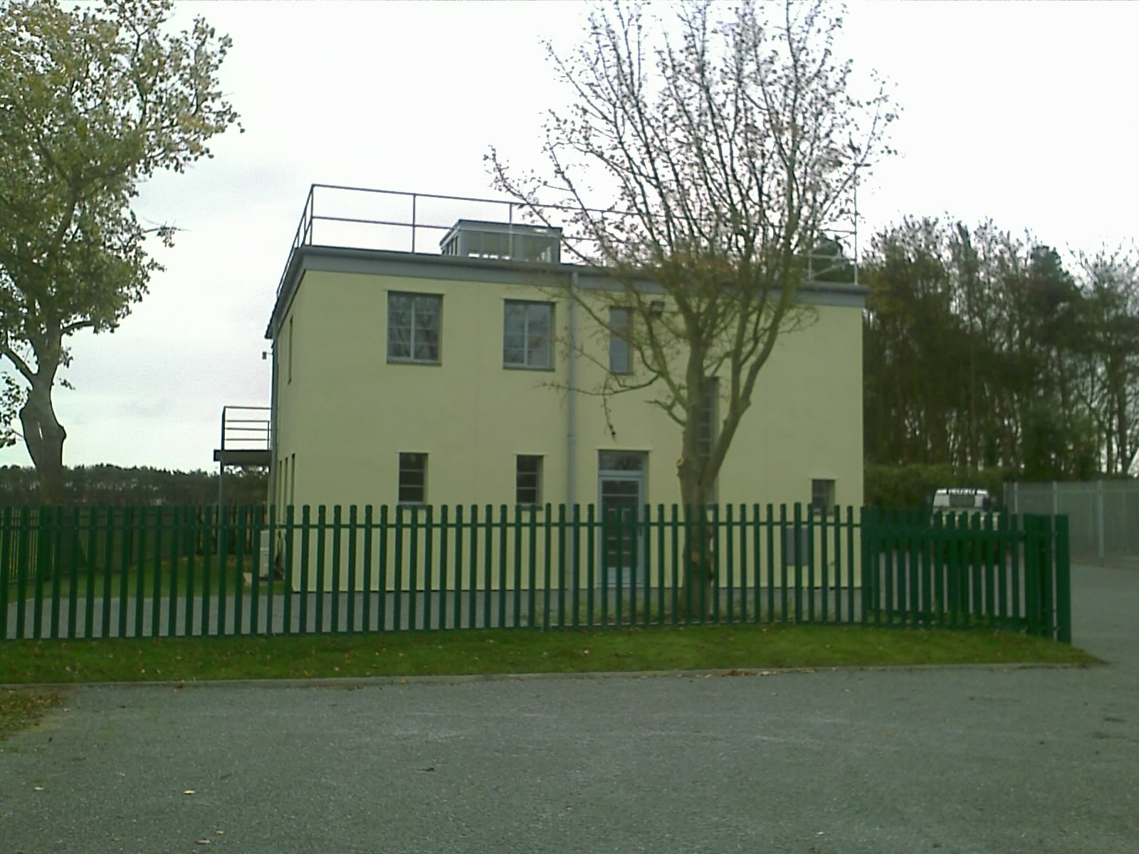 Picture of old RAF Rackheath control tower taken after refurbishment, taken 8th November 2007 from nearby field.